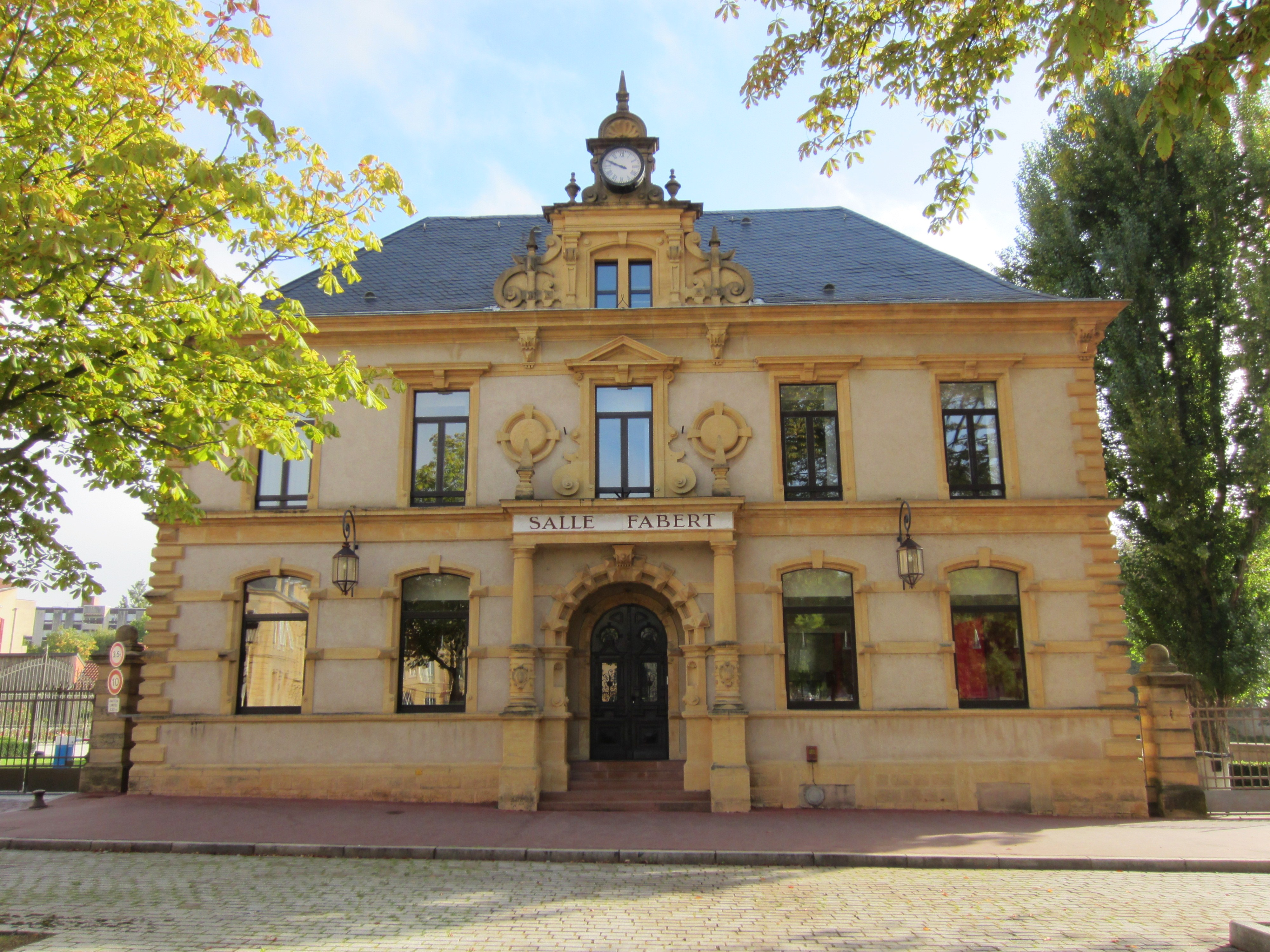 Description salle Fabert Metz Date23 November 2011Sourcemon appareil photoAuthorAimelaimePermission (Reusing this file) salle Fabert Metz